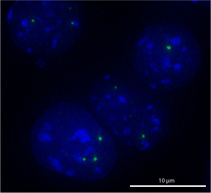 Image of Cajal bodies (green) in nuclei of mouse P19 cell line (blue). Cajal bodies are visualized by GFP-labeled marker protein p80/Coilin and nuclei are visualized by DNA intercalating dye DAPI. Image was created on DeltaVision Core microscope using 60x objective as a series of z-stack images and then processed with maximum intensity projection into a single image.